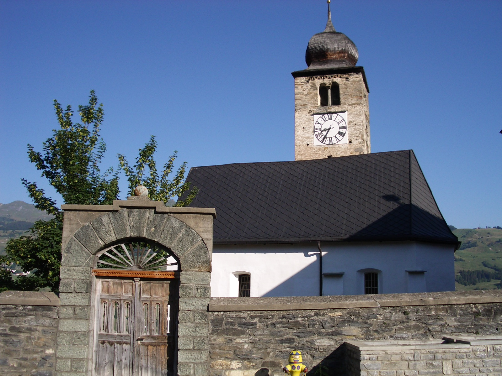 Duvin GR, Switzerland self-made, July 2006